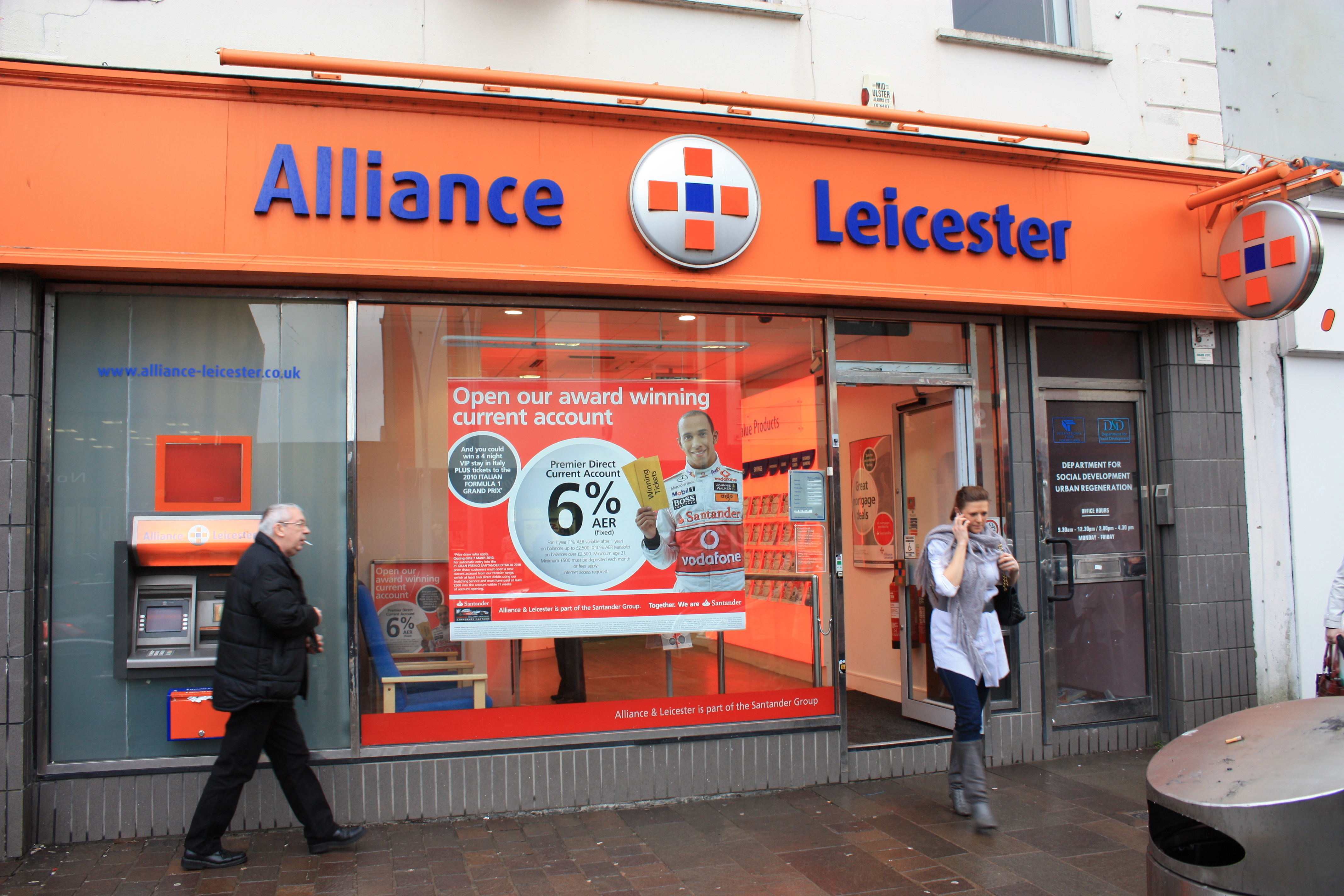 Alliance and Leicester, Market Street, Omagh, County Tyrone, Northern Ireland, January 2010